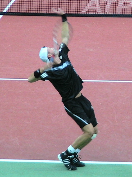 Russian tennis player Evgeny Korolev serving during his 1st round match at 2009 Kremlin Cup